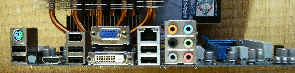 Back panel I/O ports of ASUS P5Q-EM.